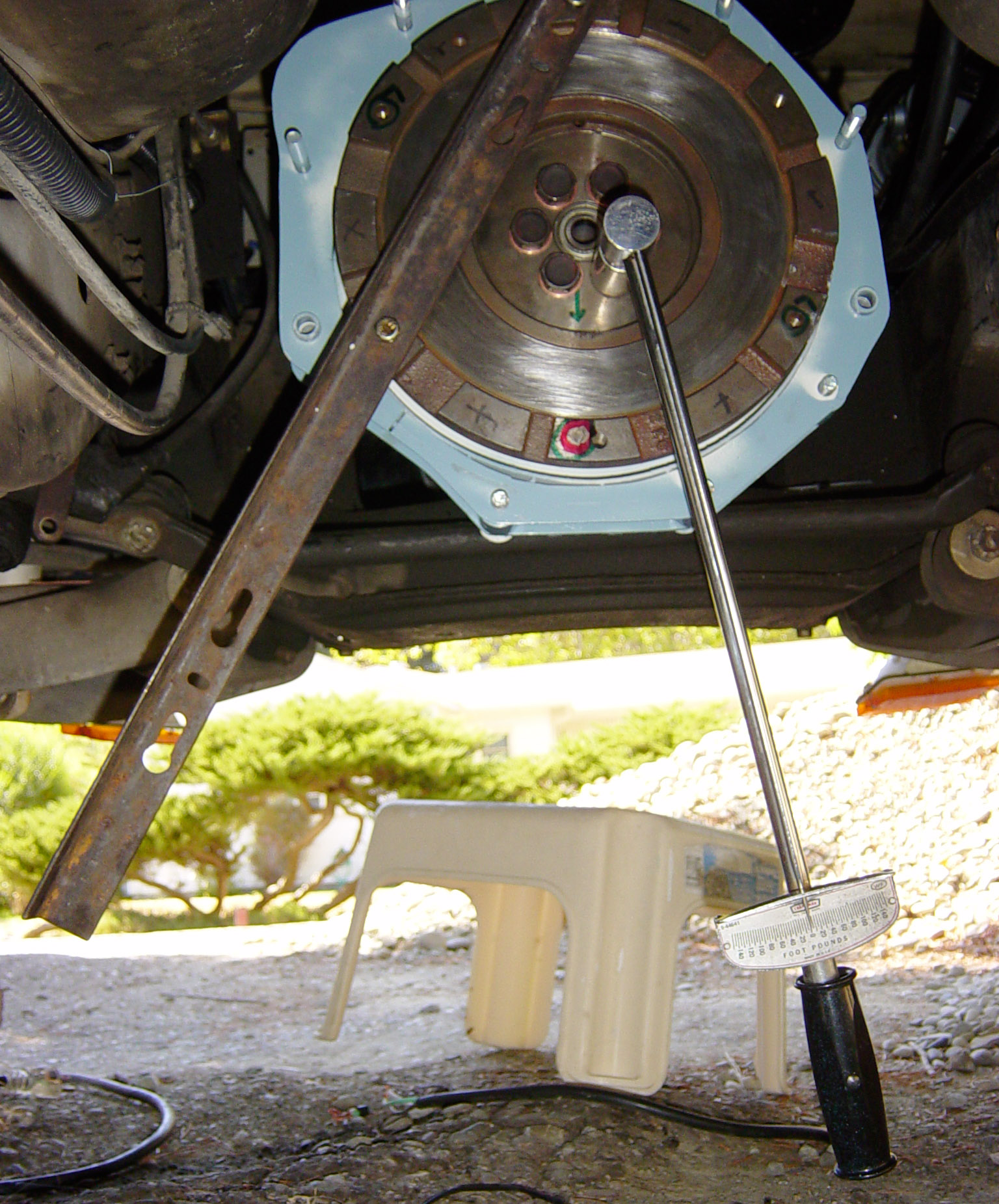 Stop bar and torque wrench for flywheel mating. Image by User:Leonard G.